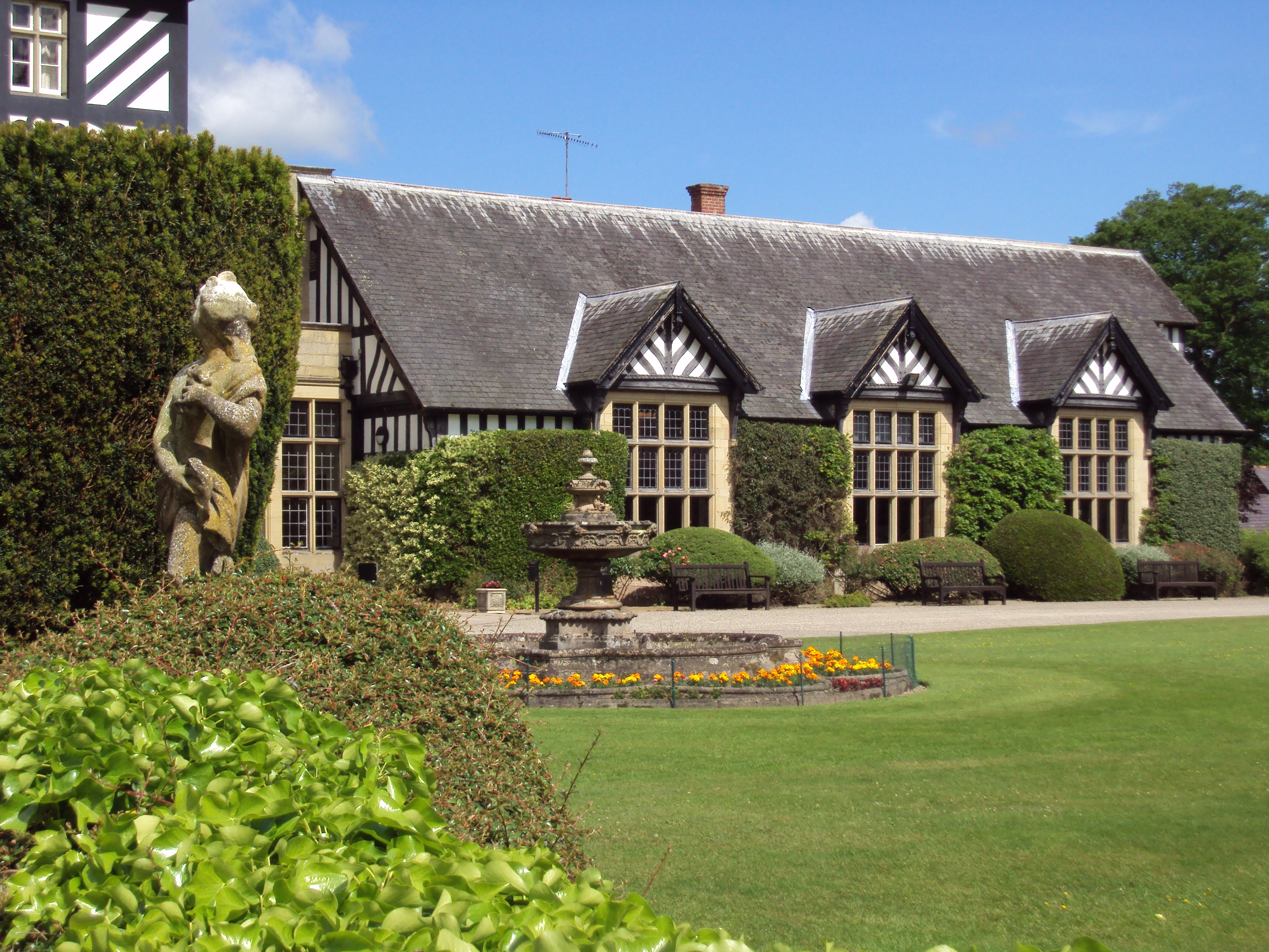 Gregynog Music Room Frontage